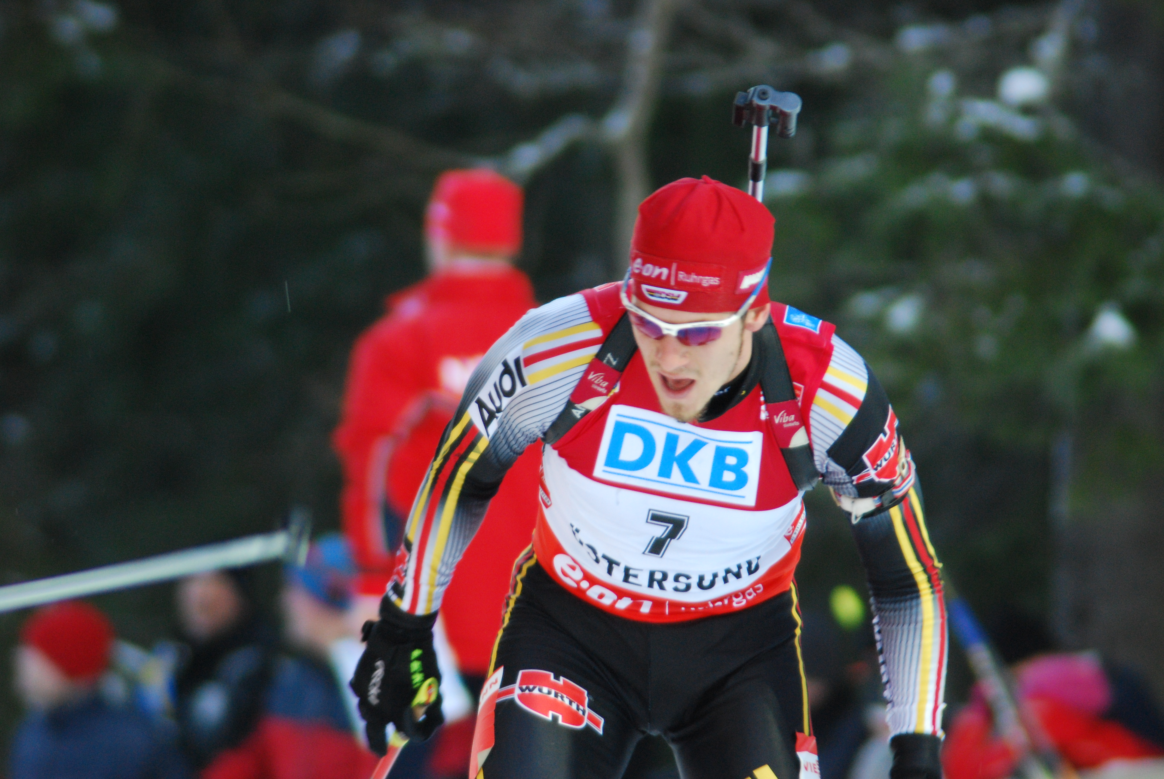 German biathlete Daniel Graf during the World Championships in Östersund 2008.